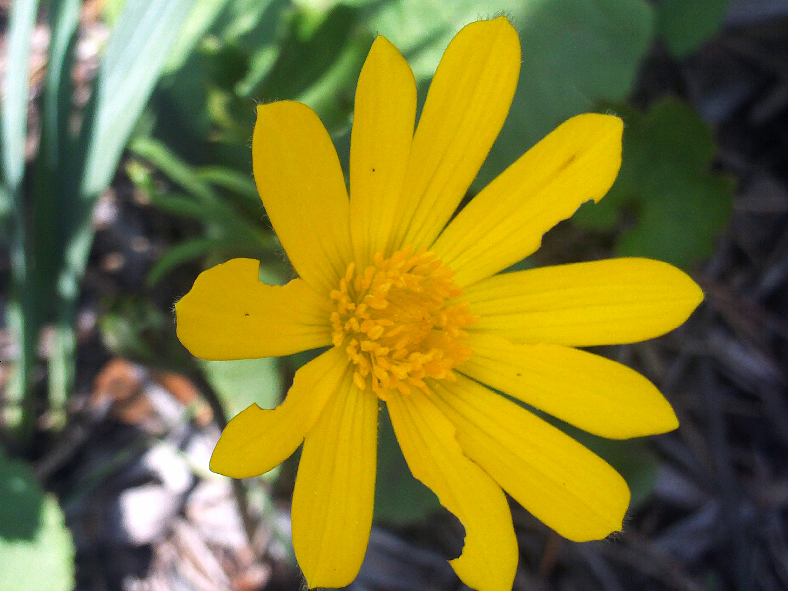 Anemone palmata flower close up, Dehesa Boyal de Puertollano, Spain